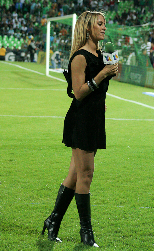 Inés Sainz, Tv Azteca broadcaster at México vs North Korea soccer game in TSM Torreón, Coahuila, México